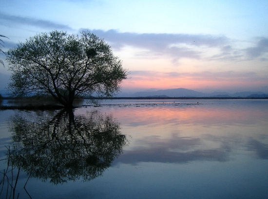 river side of junam in Korea